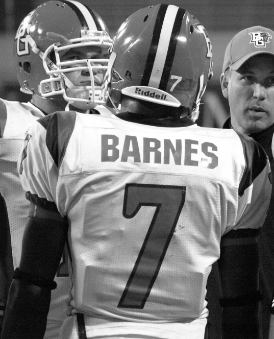 Freddie Barnes huddling with his team and coach